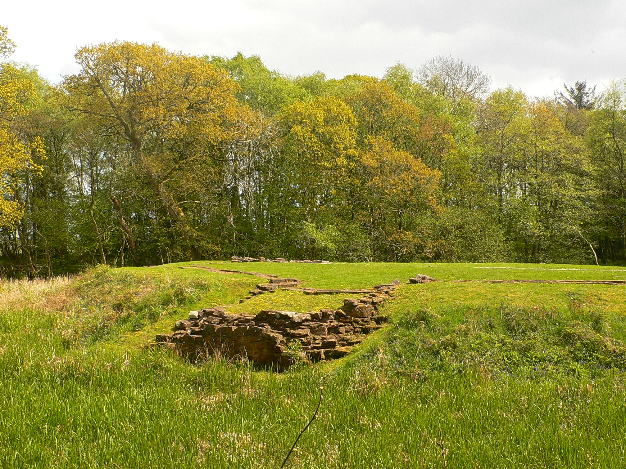 "Old" castle of Carlaverock, a precursor of the current castle, situated some 200 metres to the south of it.